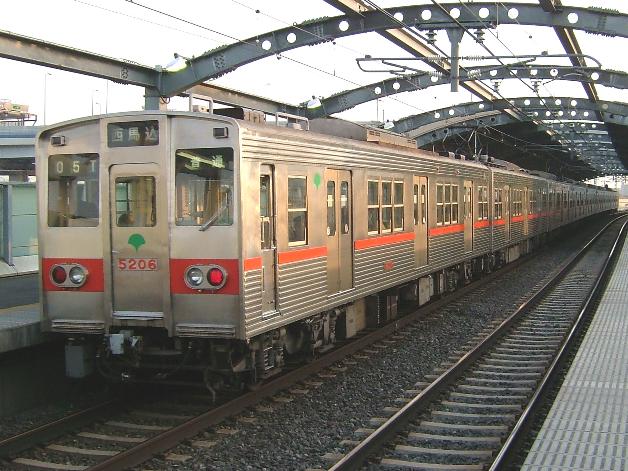 Tokyo Metropolitan Bureau of Transportation series 5200 for Asakusa Line